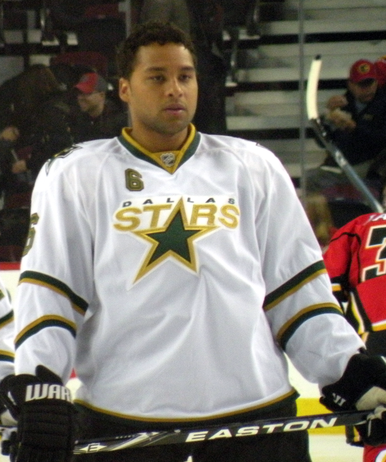 Dallas Stars defenceman Trevor Daley prior to a National Hockey League game against the Calgary Flames, in Calgary.